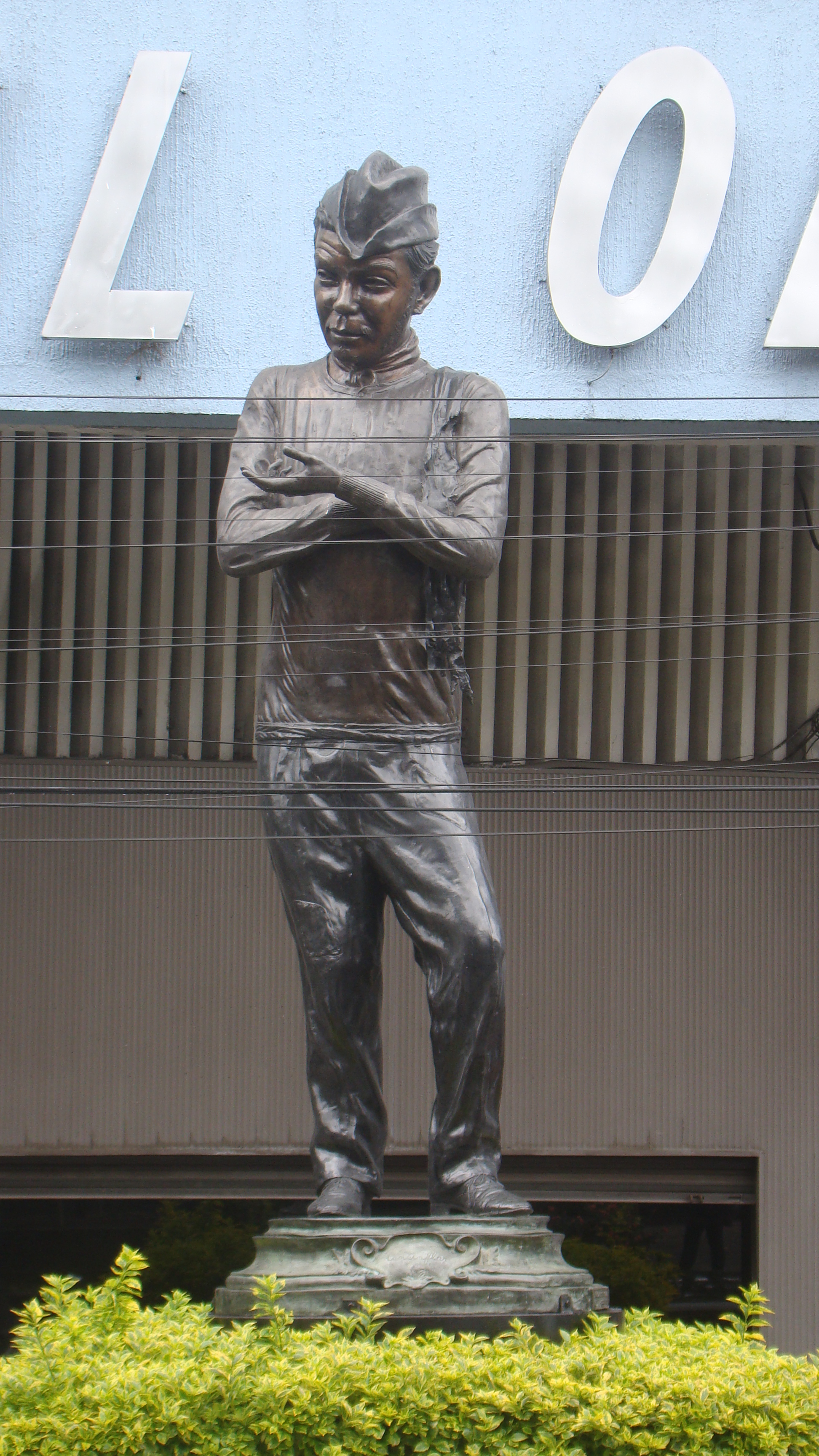 Statue in front of Álvaro Obregón Hospital at Álvaro Obregón Avenue, Mexico City